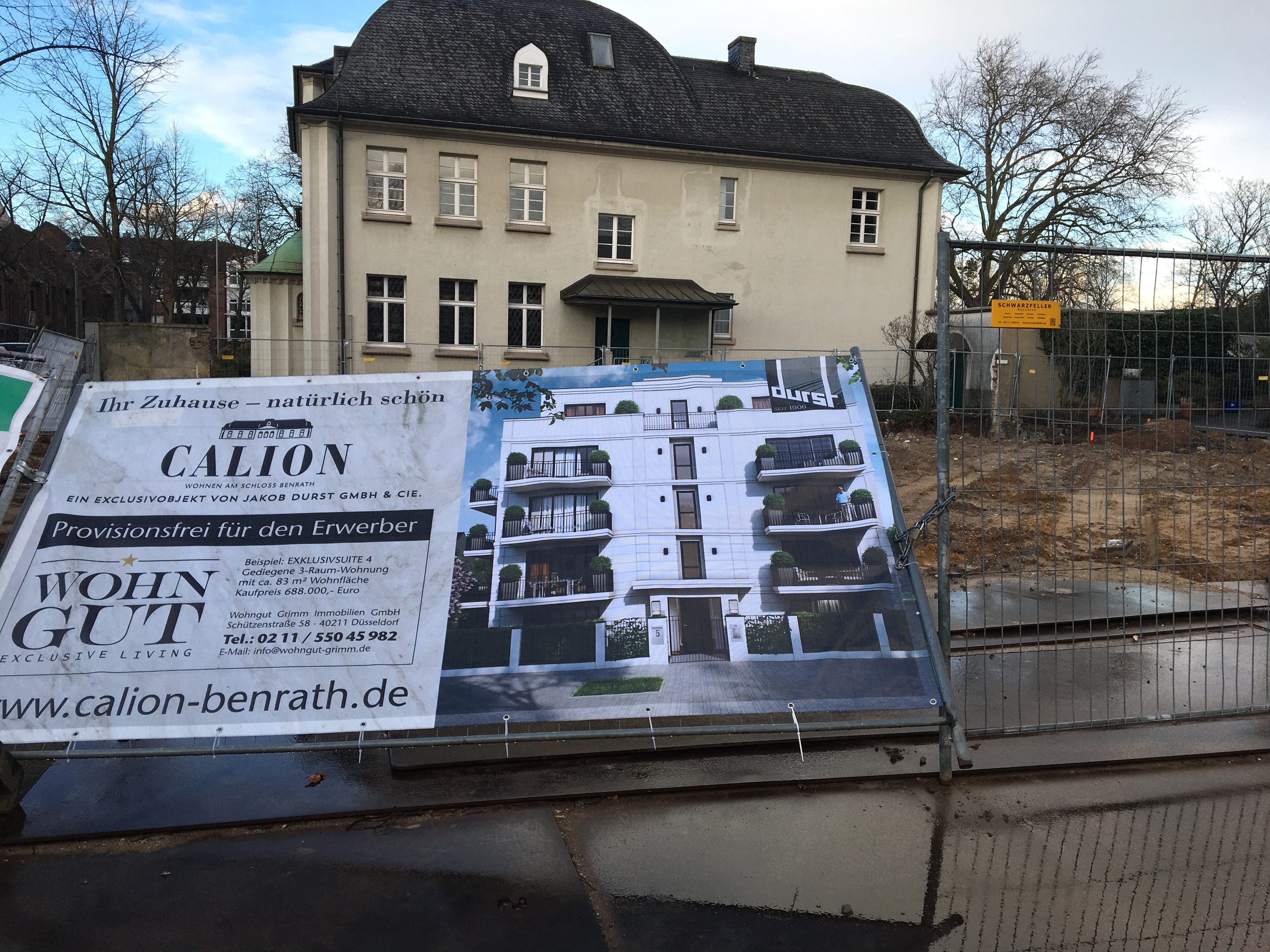 Street "Heubesstrasse" 5 (Dusseldorf-Benrath). 2020-02-17.